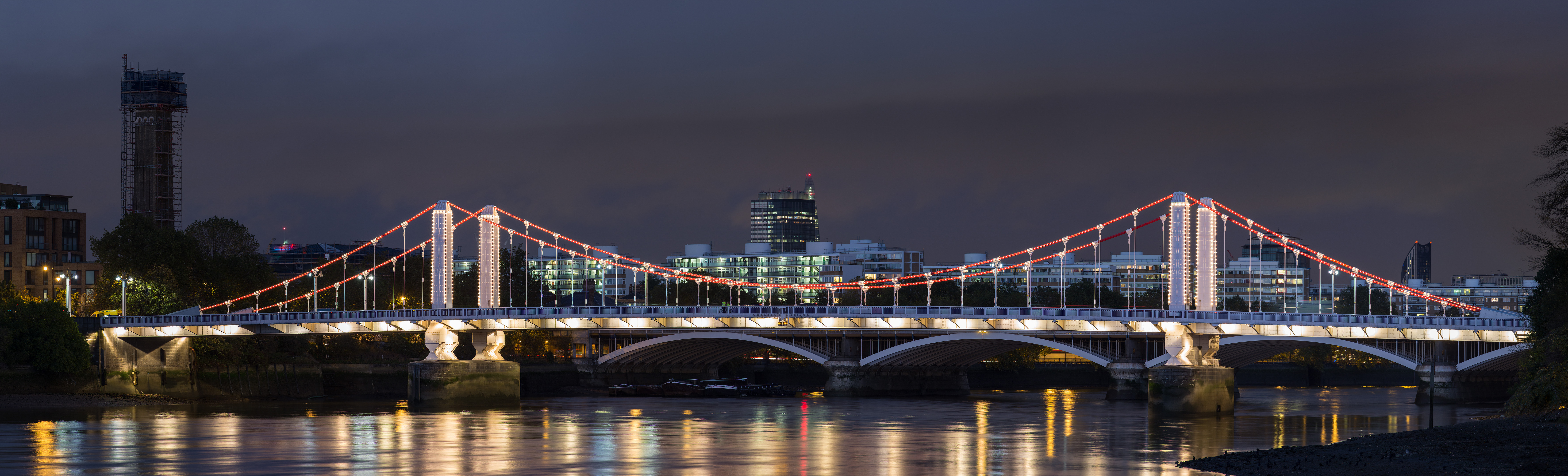 A high resolution panoramic view of Chelsea Bridge at night in London, England, as viewed from the south-west on the Thames bank of Battersea Park.